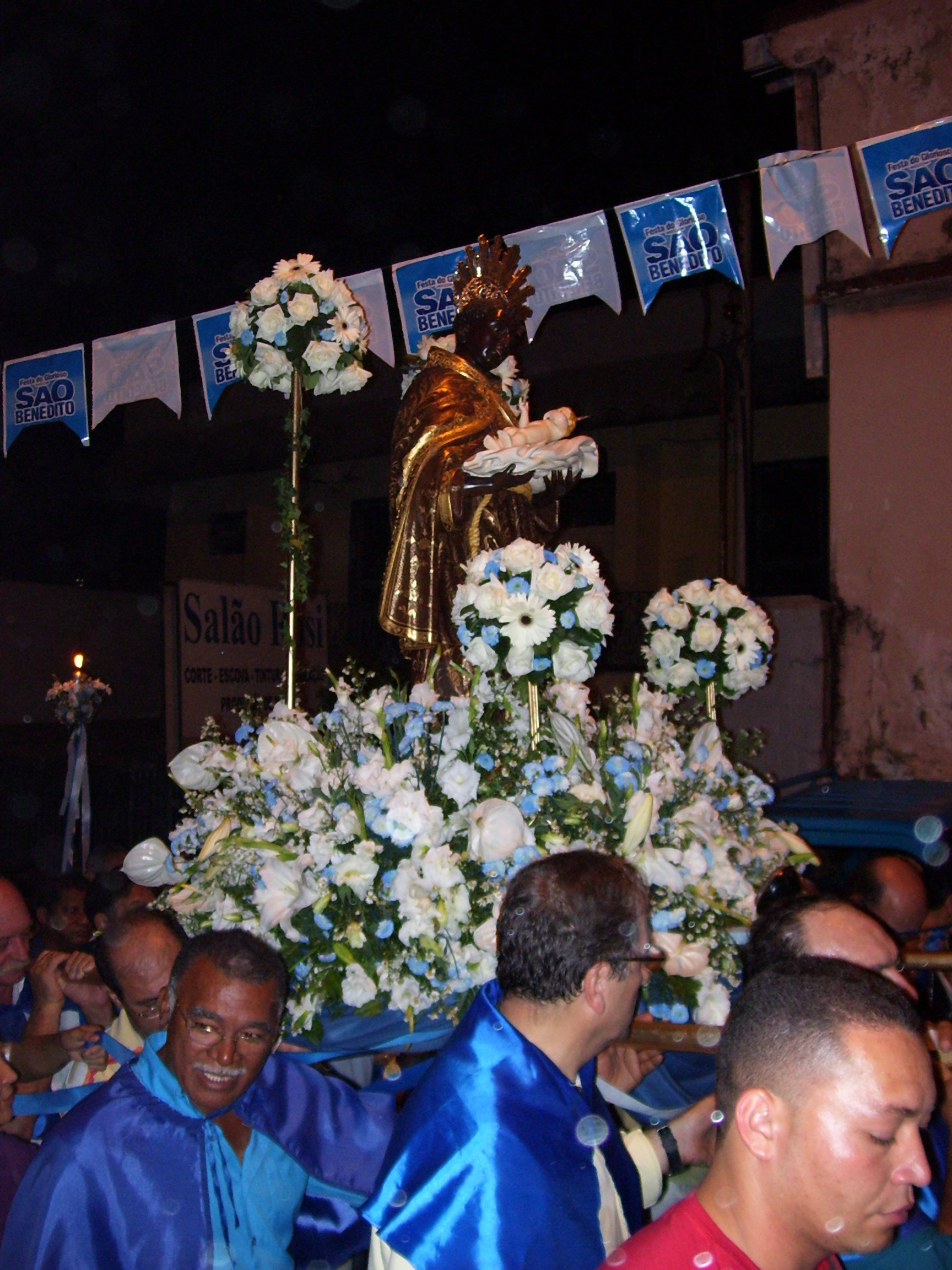 Festival of Saint Benedict of 2007. Cuiabá, Mato Grosso, Brazil.